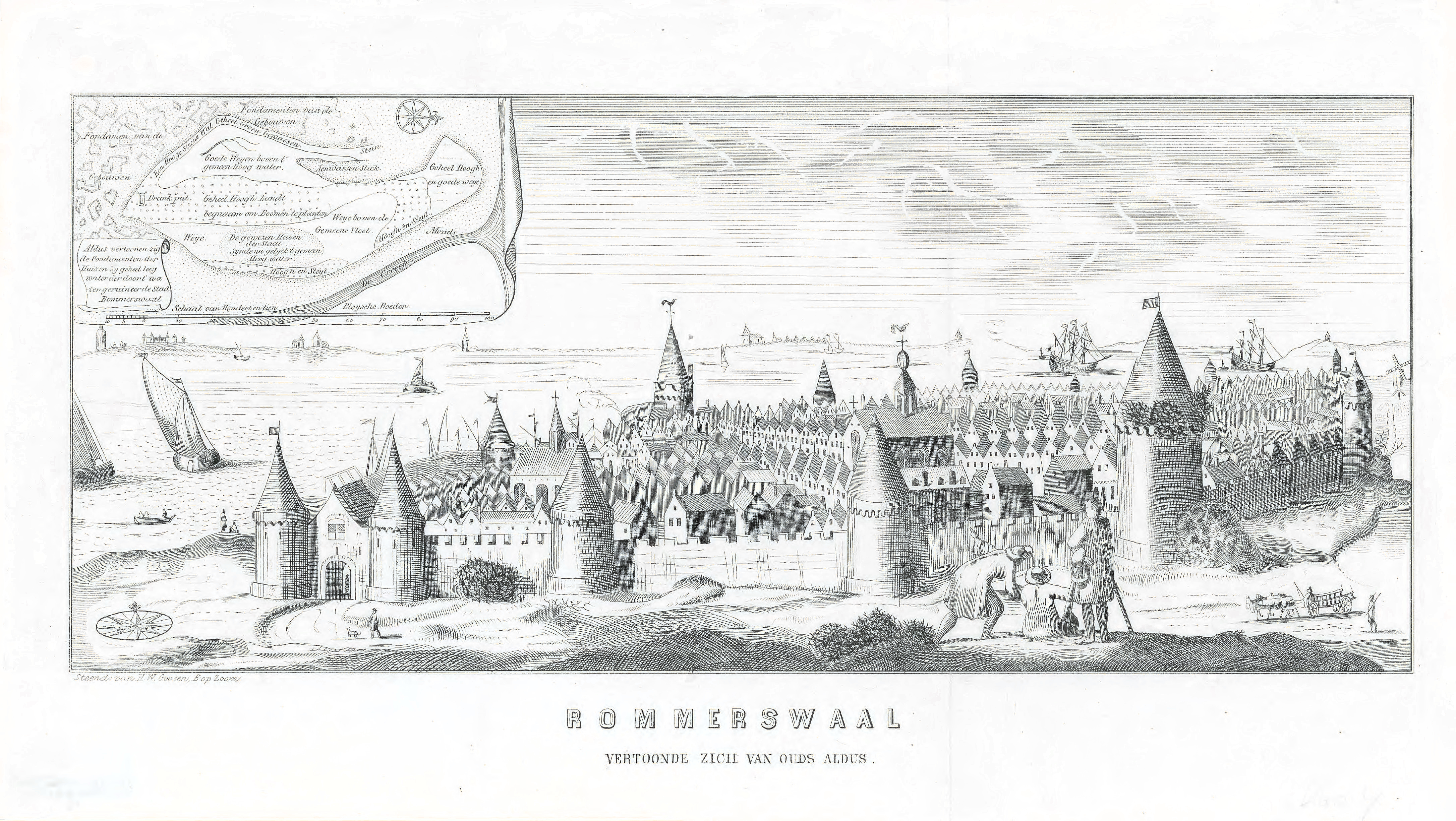 Reimerswaal, drowned city, Zeeland, The Netherlands